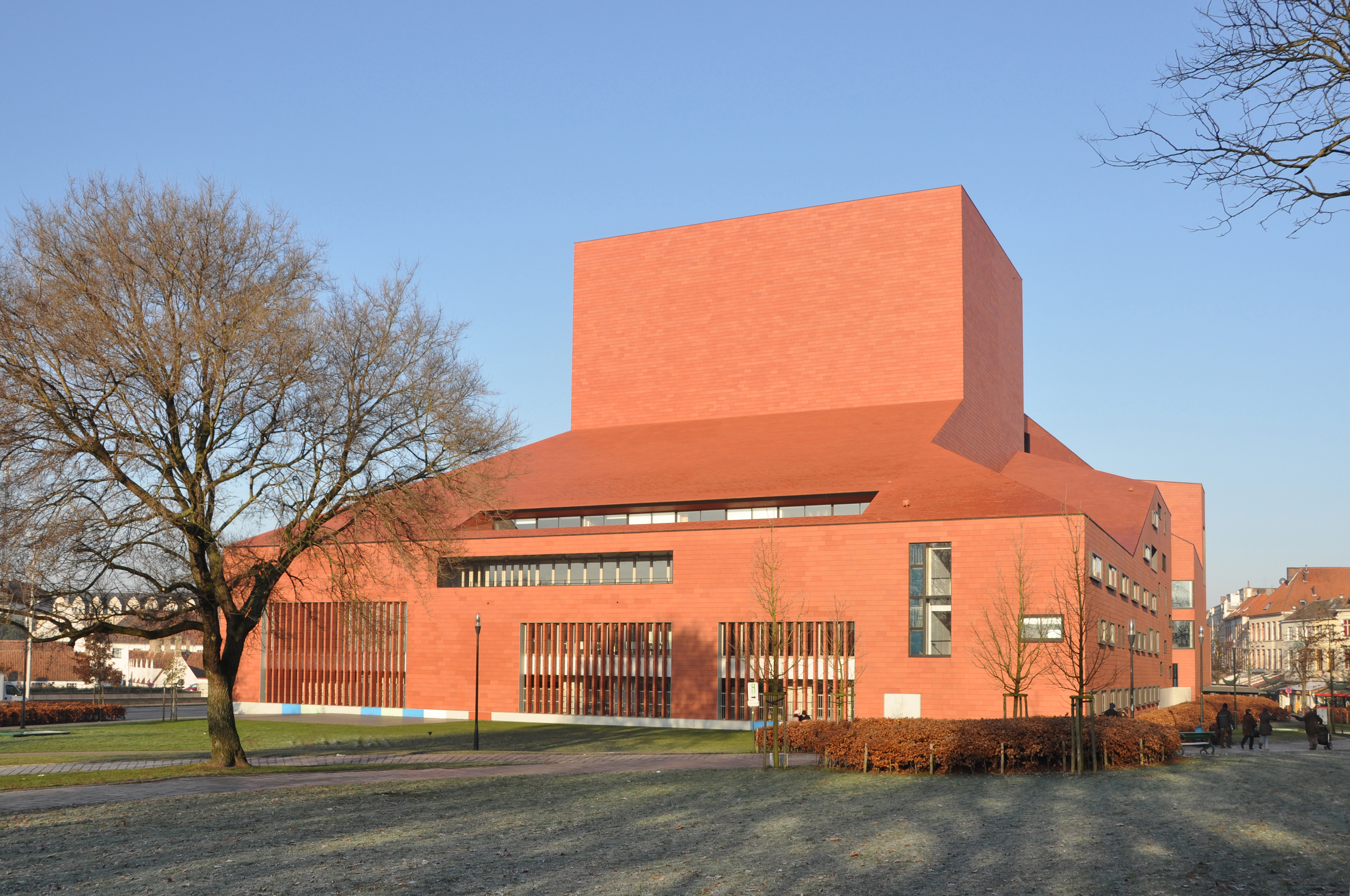 Bruges (Belgium): Concertgebouw (Concert Hall), rear side